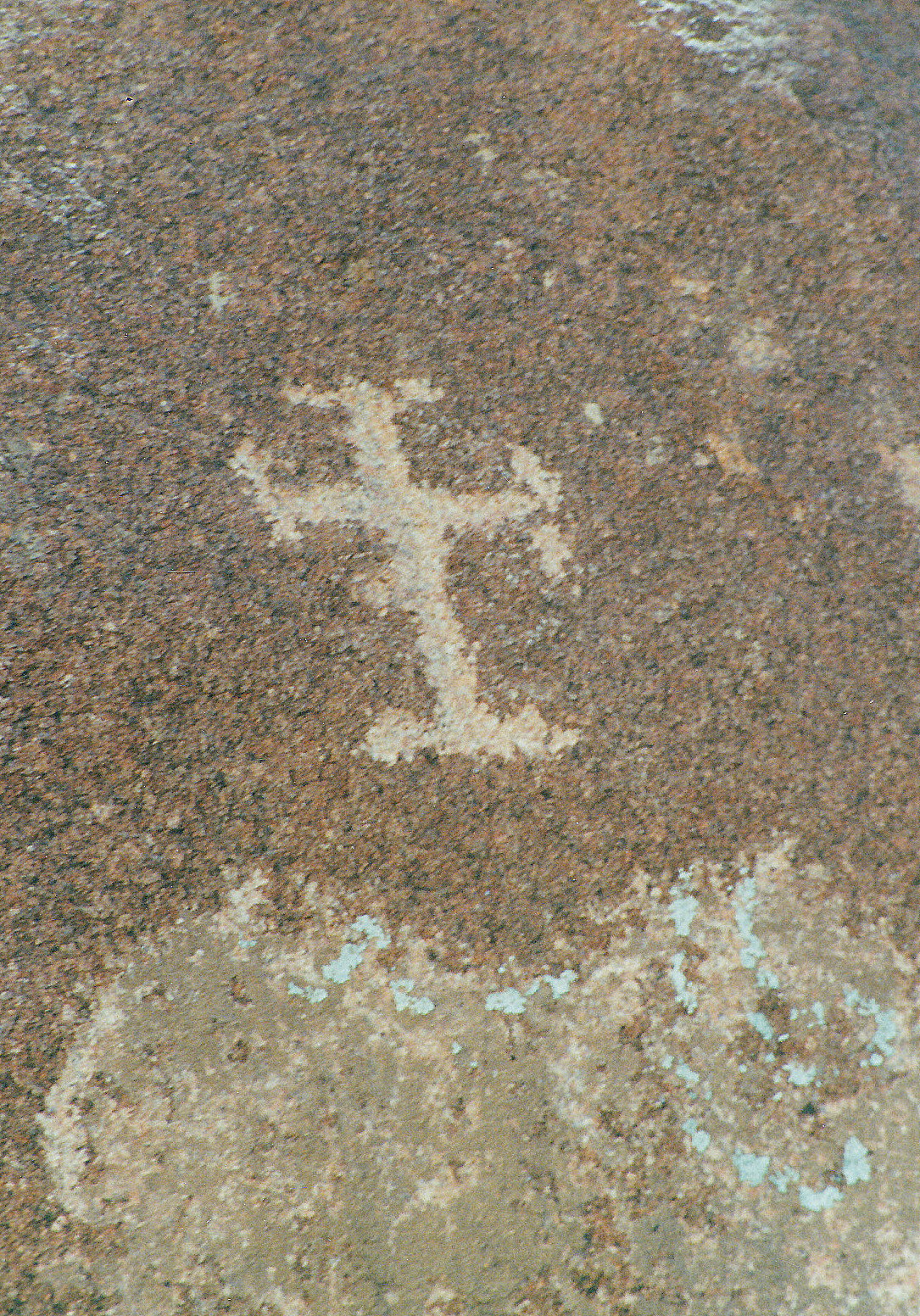 Cross on a monastery in Egypt